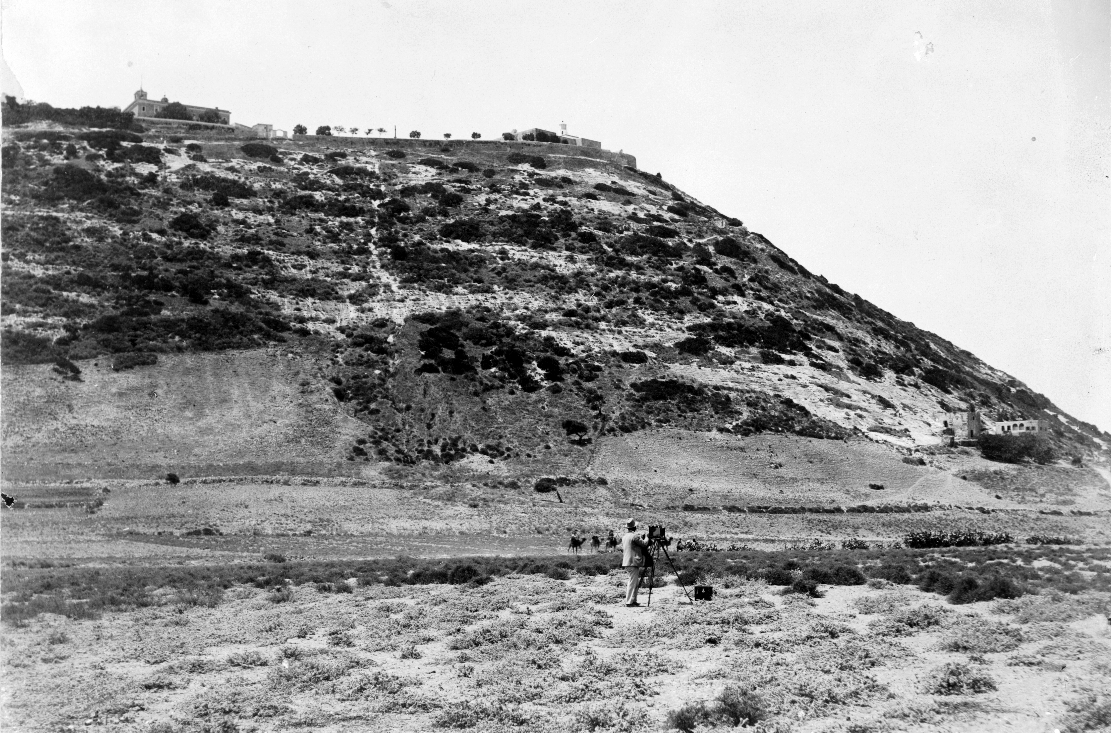 Mt. Carmel. View of man with camera facing people with camels, and Mt. Carmel, Palestine in background.